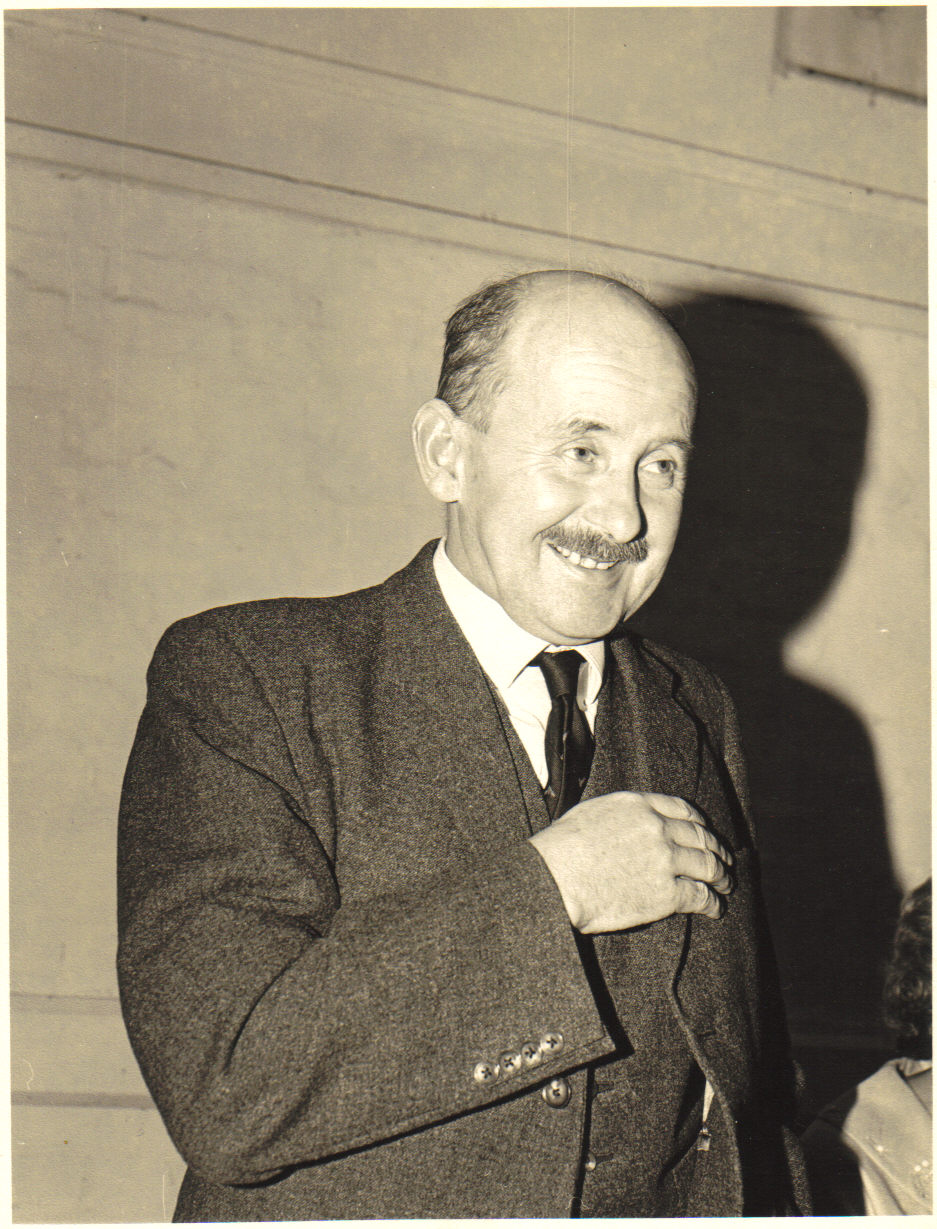 Bruce public speaking